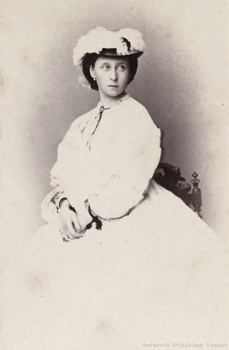 Grand Duchess Alice of Hesse and by Rhine (nee Princess of the United Kingdom)